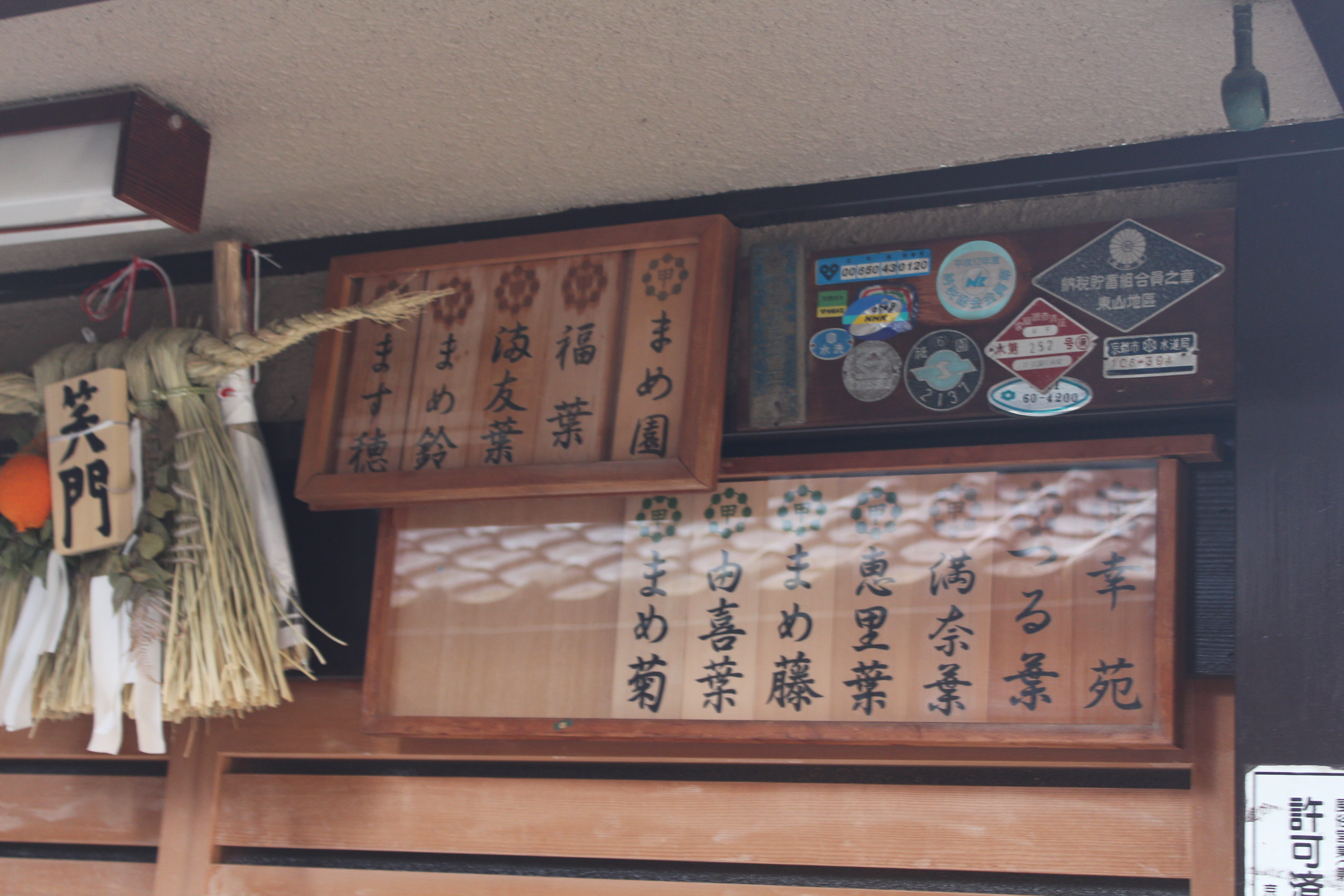 Name plates of the geiko and maiko working in Tama okiya (多麻). Top row from left: Masuho, Mamesuzu, Mayuha, Mamesono. Bottom row from left: Mamekiku, Yuriha, Mamefuji, Eriha, Mayuha, Tsuruha, Yukizono